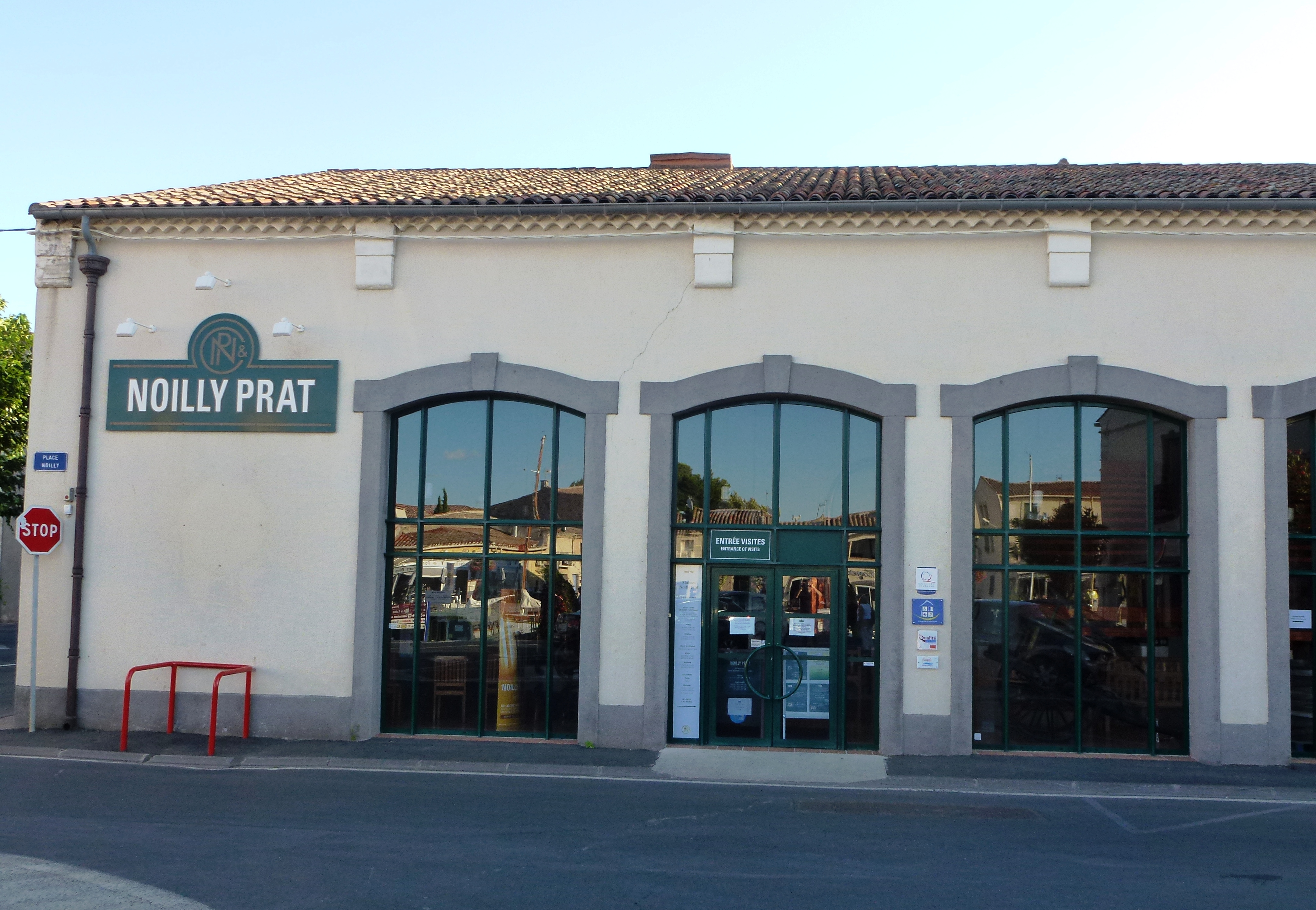 Vermouth factory Noilly-Prat in Marseillan, France